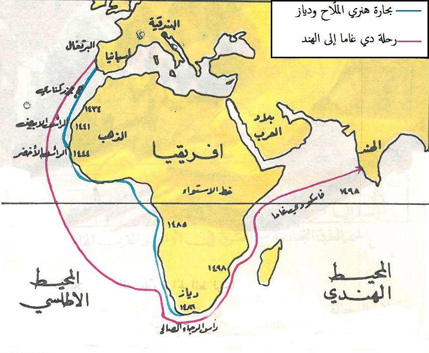 Portuguese Discovries: voages of Prince Henry the Navigator and Bartolomeu Dias, and Vasco da Gama.